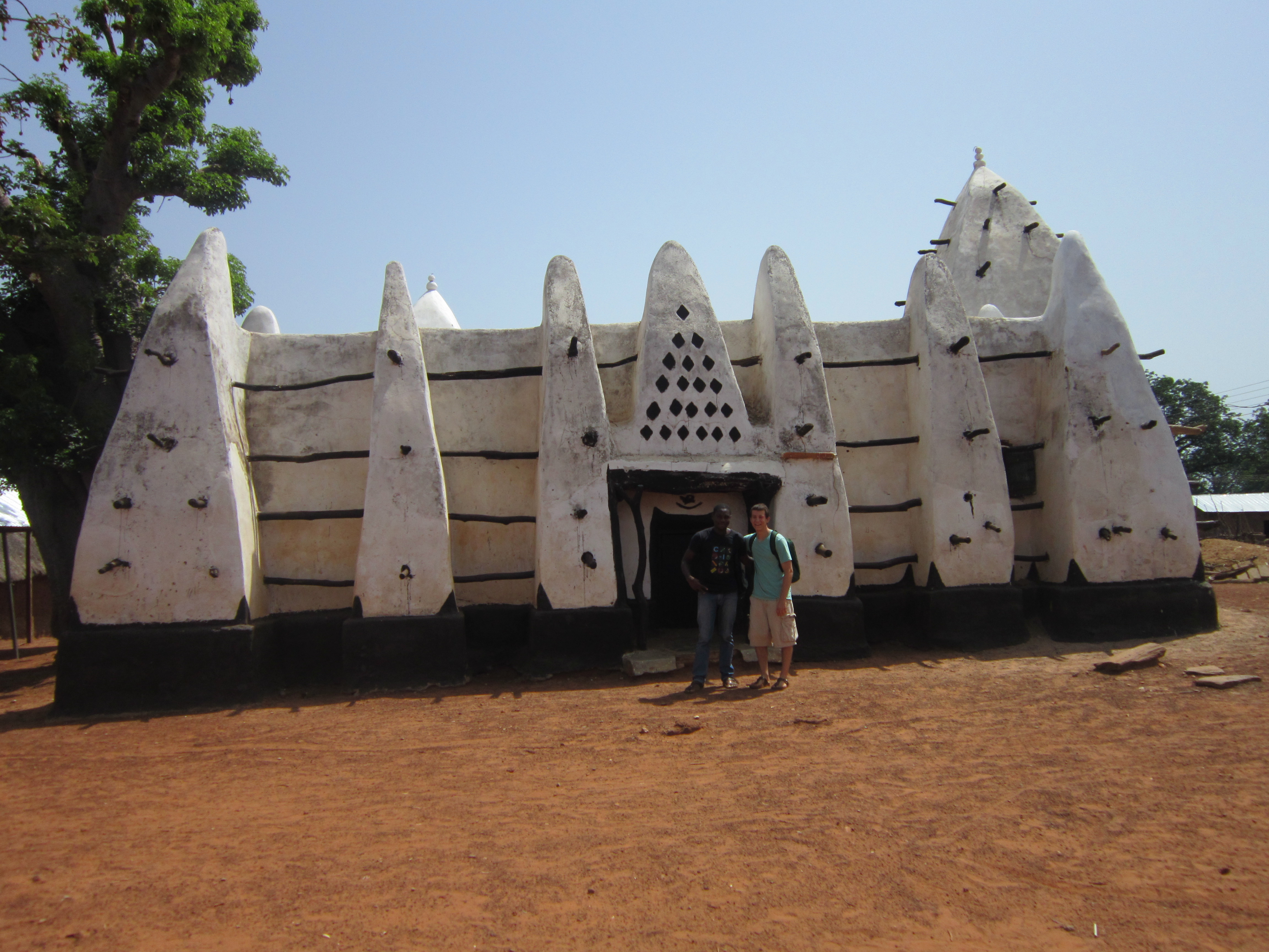 This is the Larabanga Mosque located close to the Mole National Park. It can be found in the Northern region of Ghana in the Damongo District.